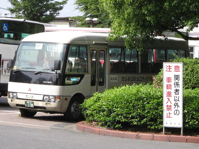 Mitsubishi Fuso "Rosa" Tajimi city Jishu unkou Bus"